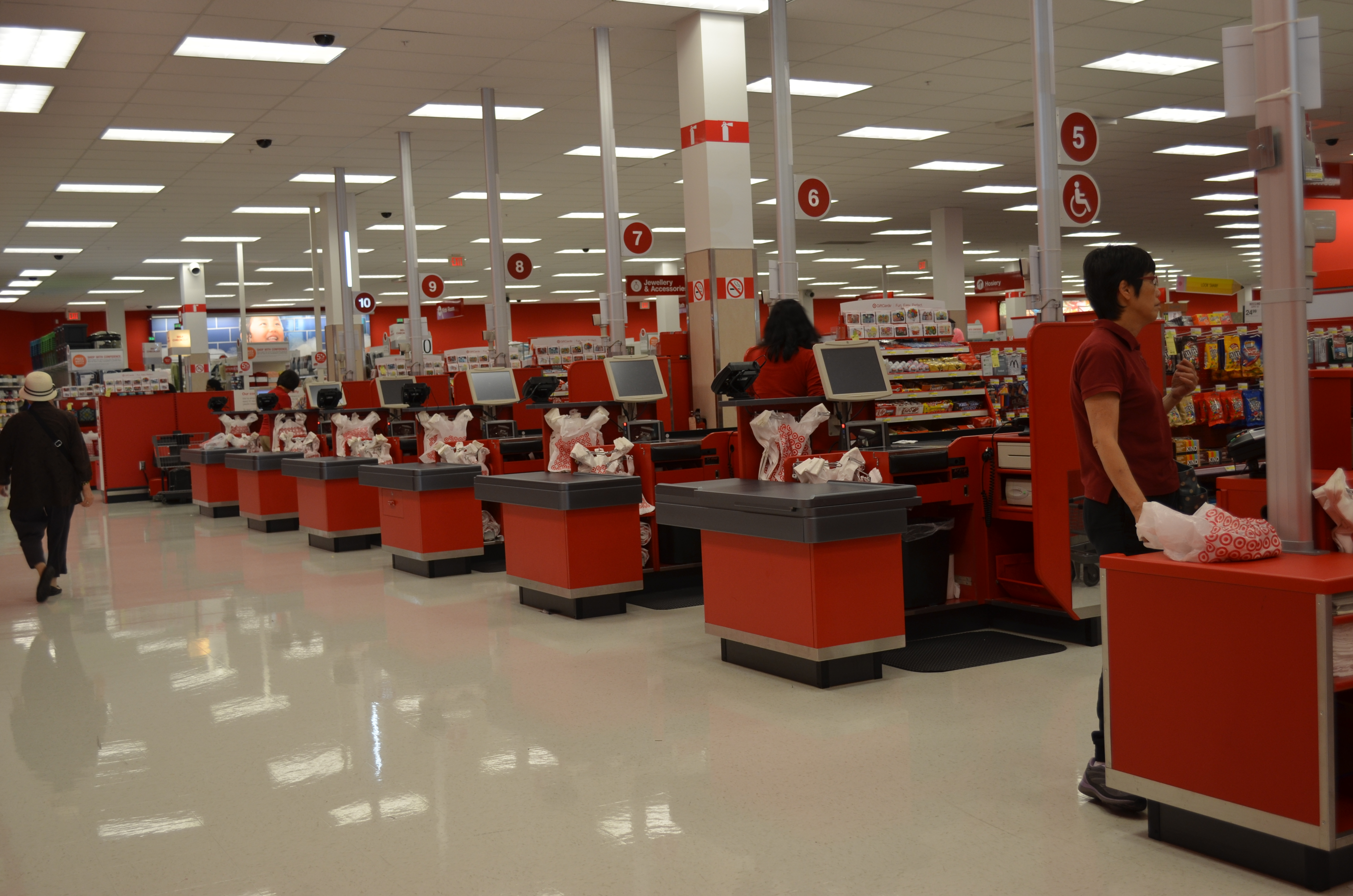 Cash registers at the Centrepoint Mall location of Target Canada.